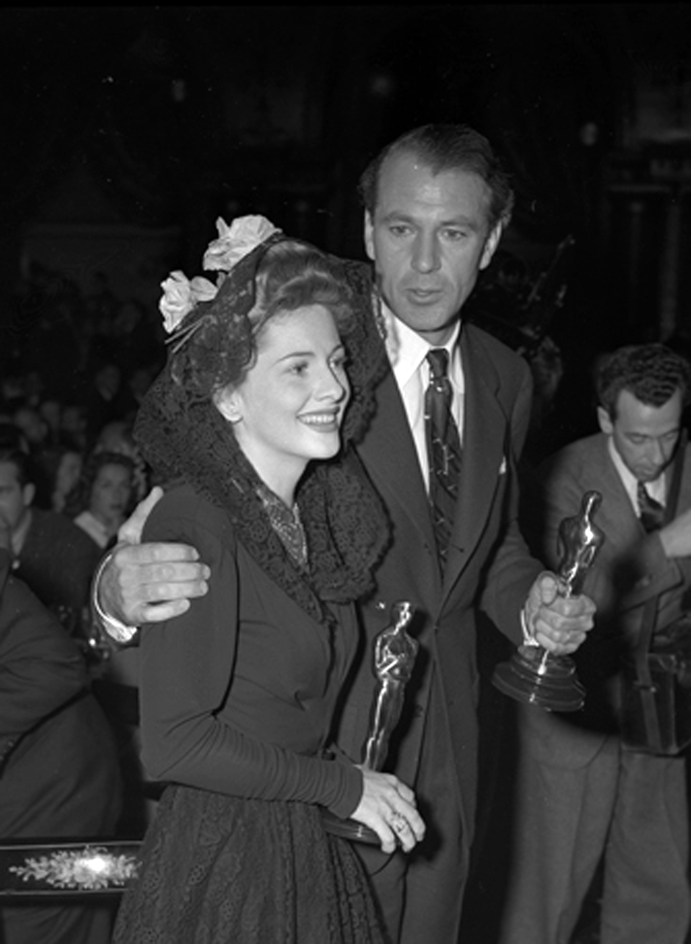 Actors Joan Fontaine and Gary Cooper holding their Oscars at the Academy Awards after party, 1942